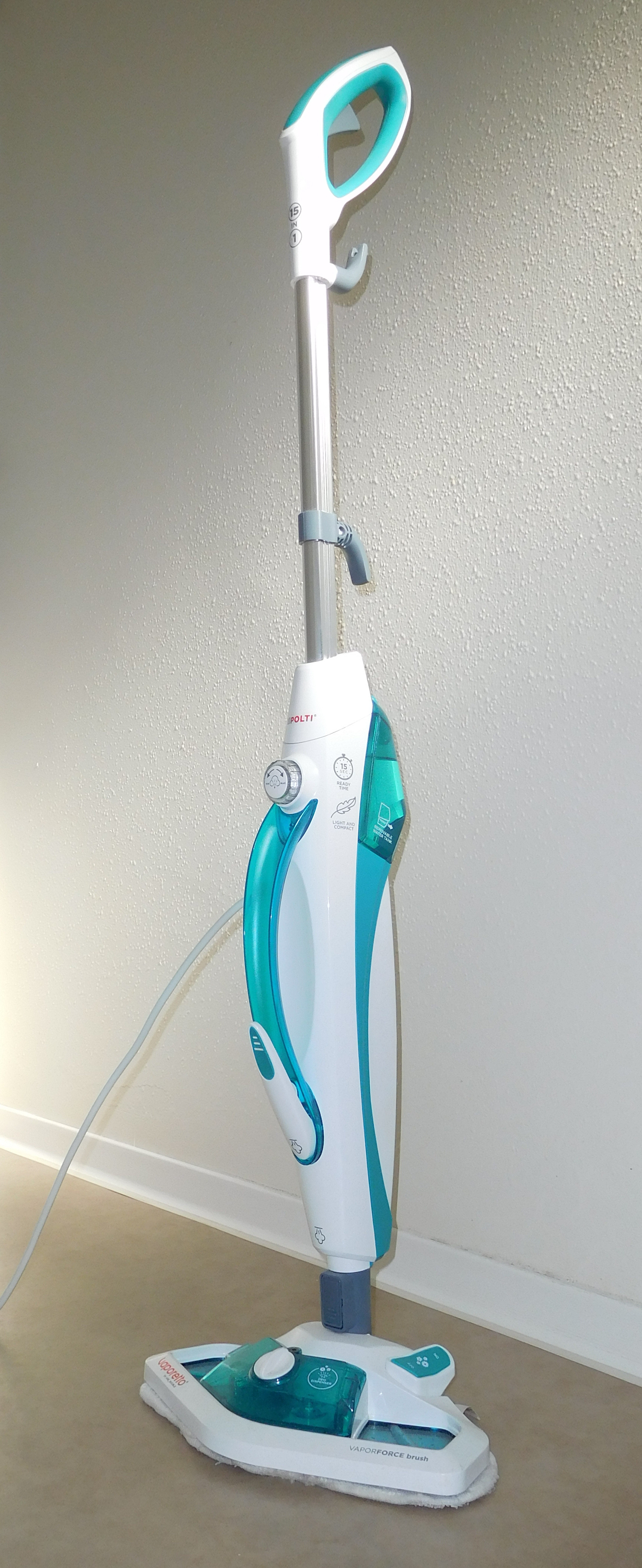 Polti steam mop/floor cleaner or portable steam cleaner.